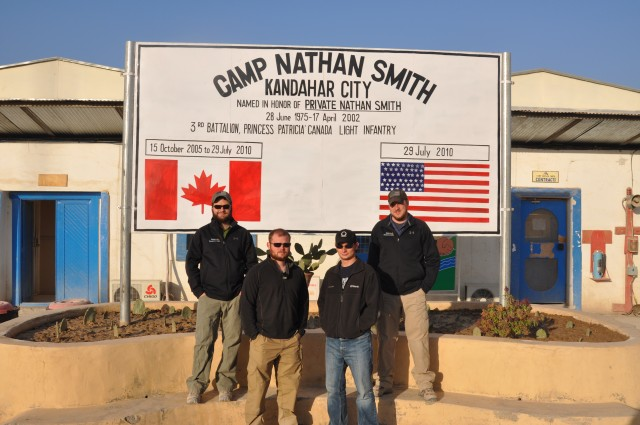 Entrance sign to Camp Nathan Smith outside of Kandahar City, Afghanistan